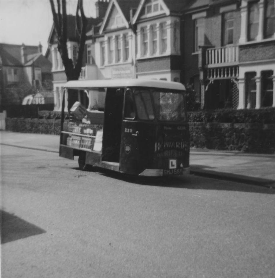 A Brush Pony milk float operated by Howards Dairies, fleet number 239, registration number GHJ 585, near Southchurch Boulevarde depot, Southend-on-Sea, England around 1970.